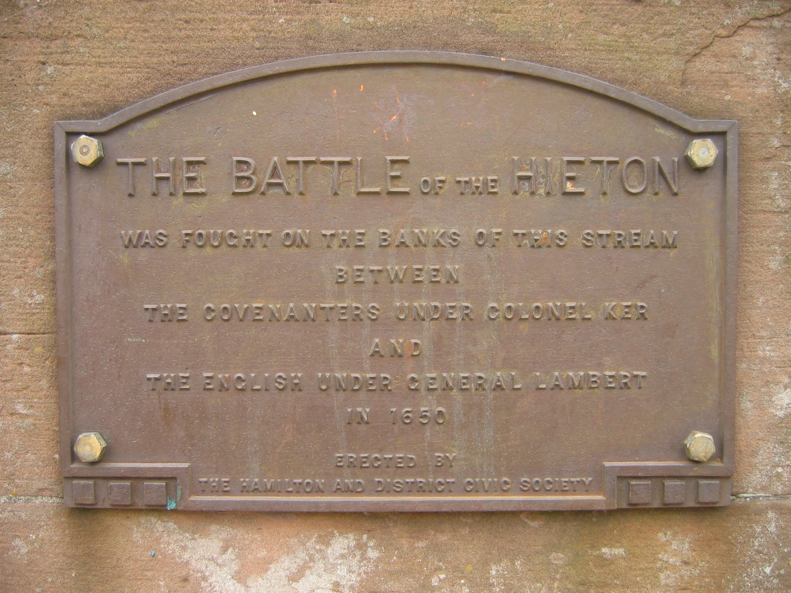 Plaque commemorating the Battle of Hieton, in Hamilton, South Lanarkshire, Scotland.